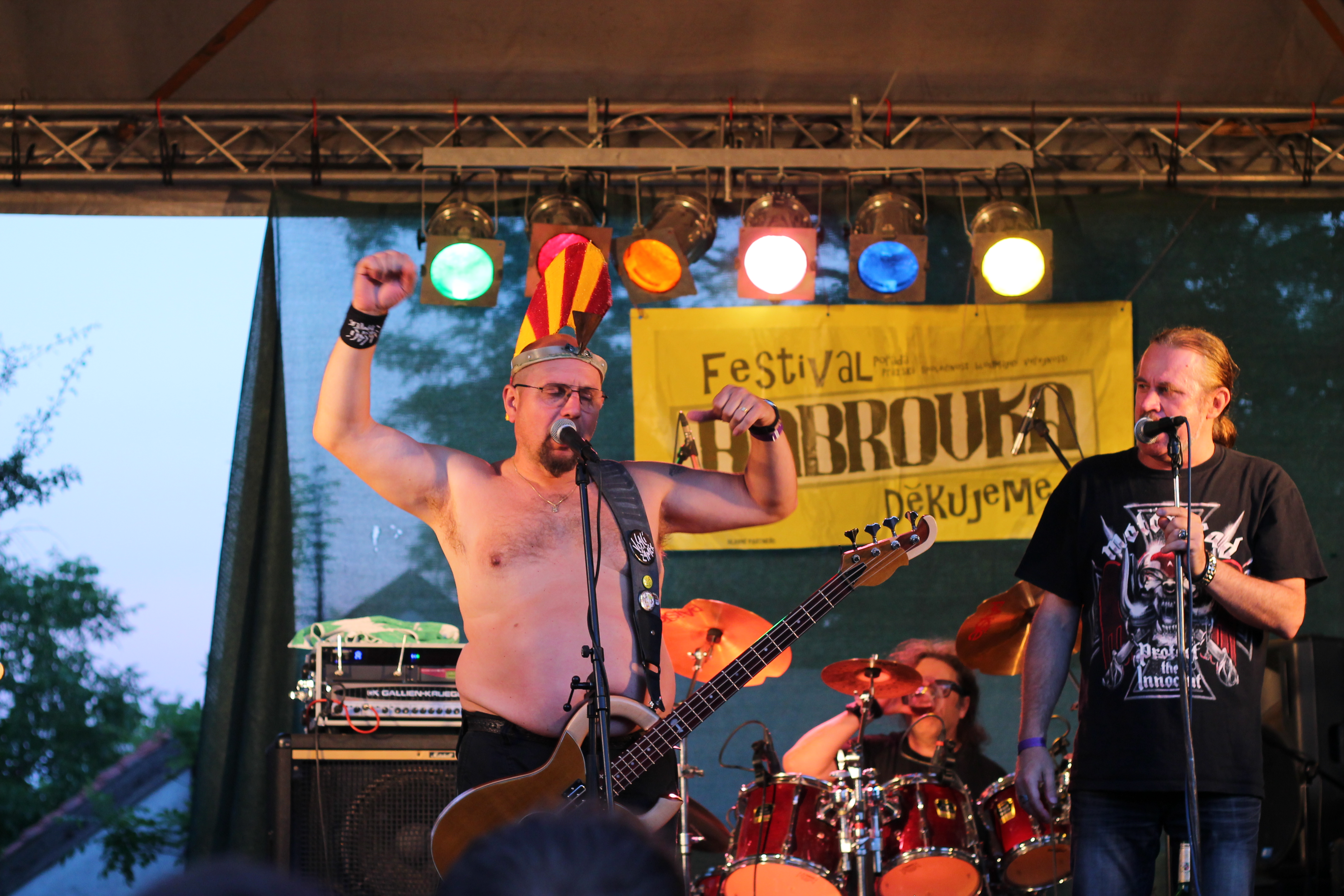 Concert of the band Visací zámek at Habrovka festival, Prague 6. 6. 2014